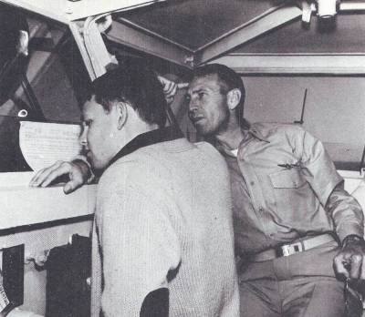 Jim Morrison and his father George Stephen Morrison on the bridge of the USS Bon Homme Richard (CVA-31).